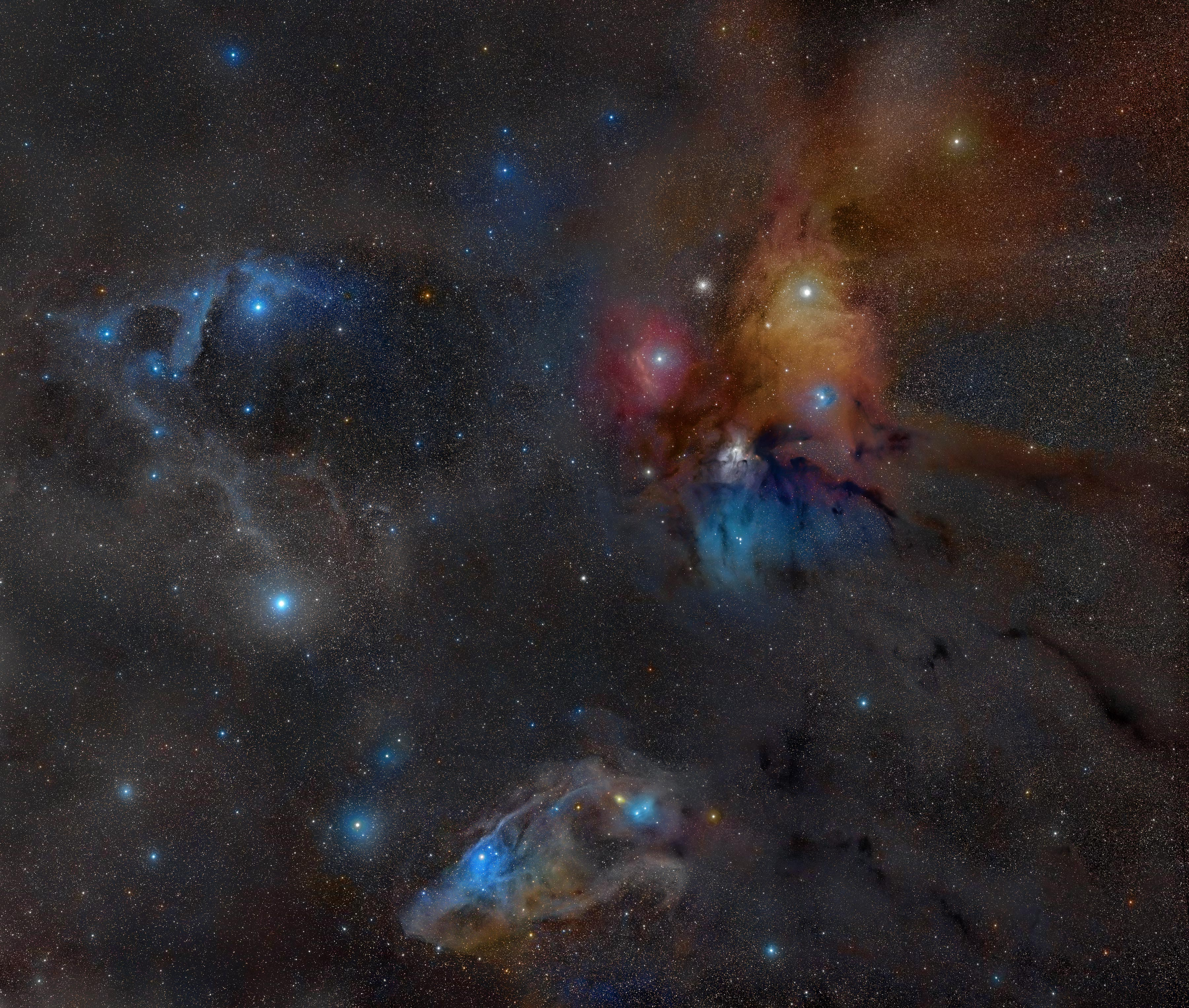 The binary star system Rho Ophiuchi. This star-forming region is located only 400 light years from Earth and is surrounded by a red emission nebula and numerous light and dark brown dust lanes. Nearby is the yellow star Antares while the globular cluster, M4, is visible between Antares and the red emission nebula. Toward the bottom can be found IC 4592, the Blue Horsehead nebula.